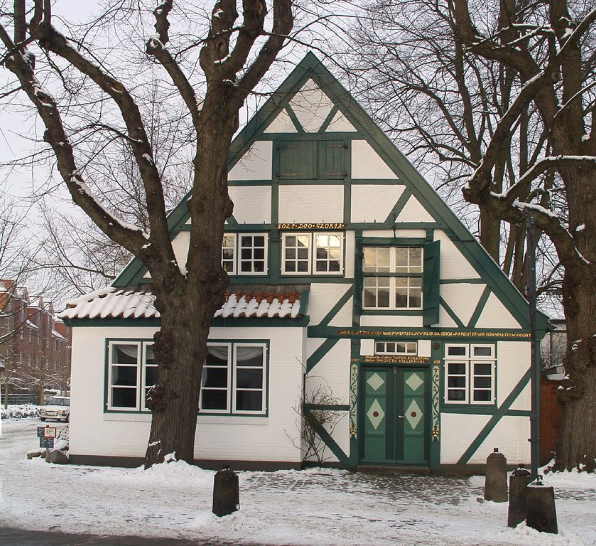 Wedel, (Slesvic-Holstein, Germany): Reepschlägerhaus (1758), photo 2003